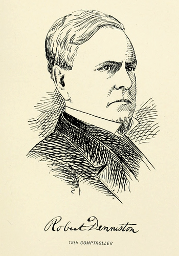 Robert Denniston, New York State Comptroller, 1860-1861 Other information Originally from Roberts, James A.; _A Century in the Comptroller's Office, State of New York, 1797 to 1897_; Albany NY, James B. Lyon; 1897. Digitized by Richard J. Shiffer.